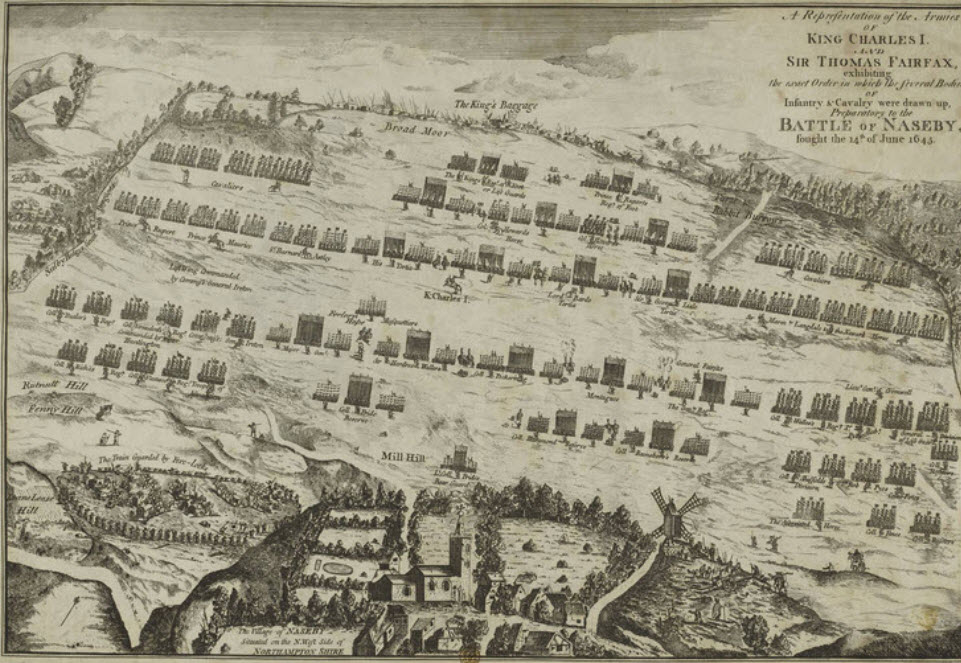 The Battle of Naseby 1645 Map